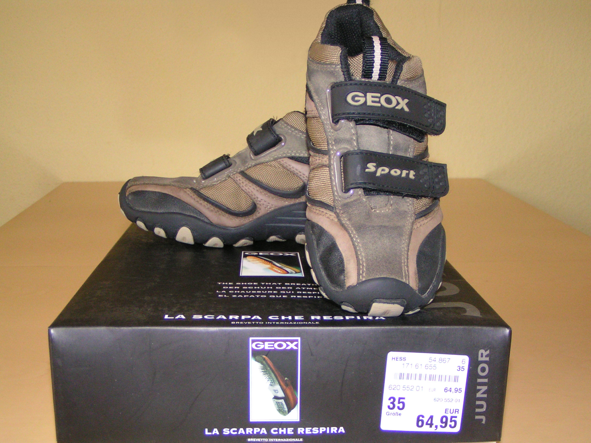 Shoes